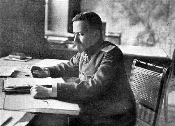 Evgeny Miller